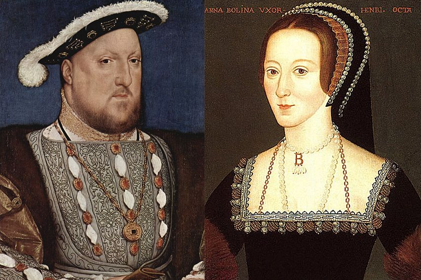 Henry VIII and his second wife, Anne Boleyn.